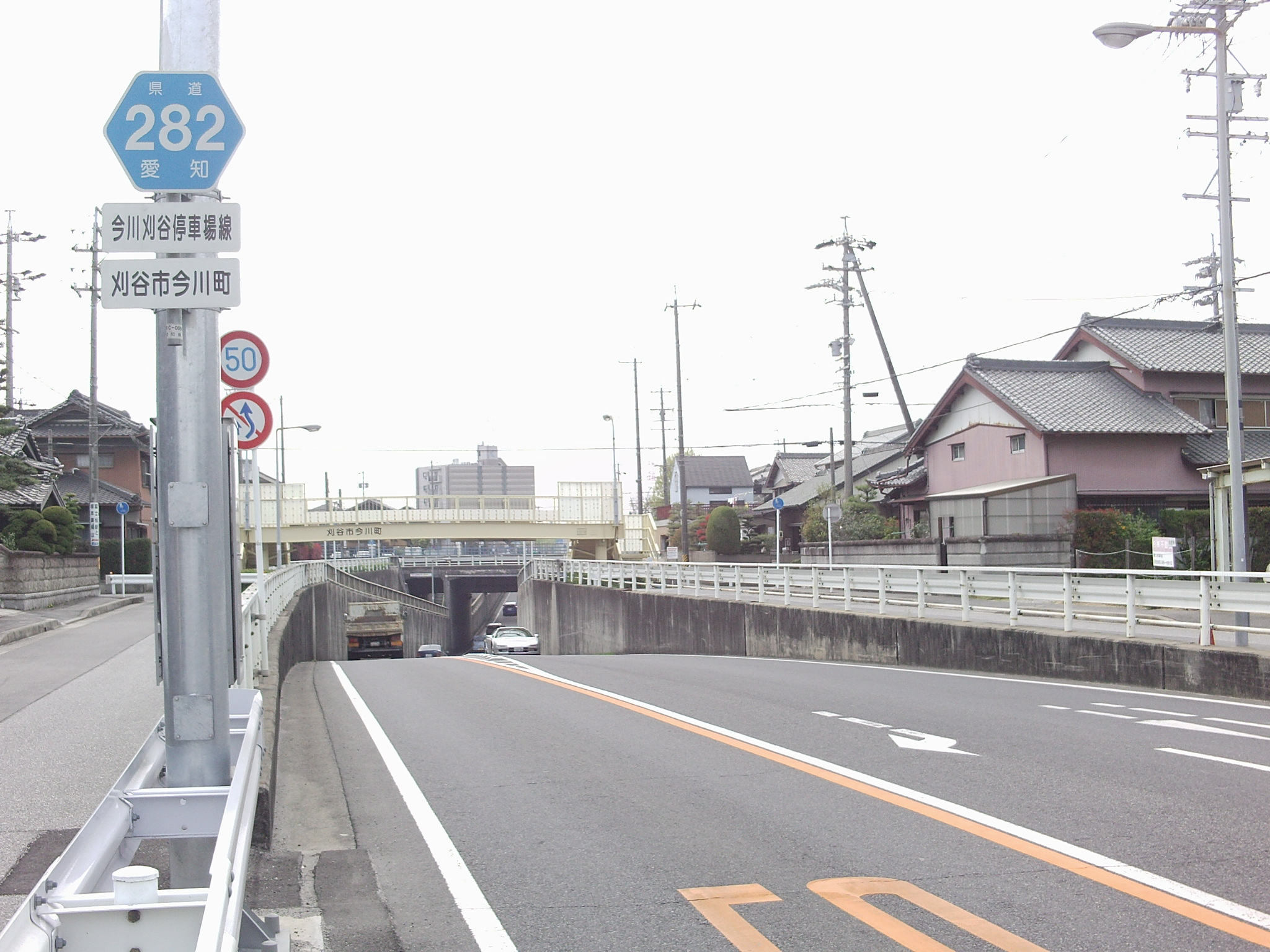 Aichi prefectural road No.282 in Imagawacho, Kariya, Aichi.